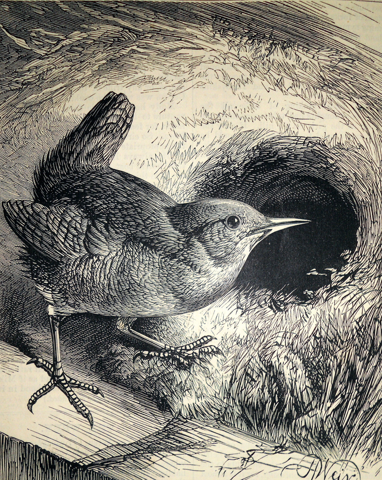 The Wren's Nest - Harrison William Weir.